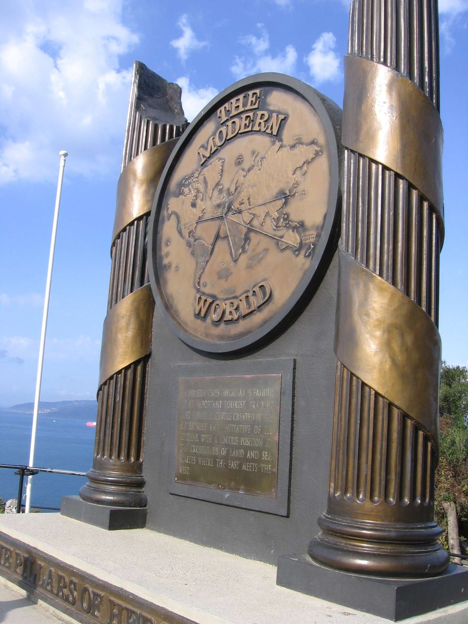 The Jews' Gate in Gibraltar, symbolic monument of the Pillars of Herkules (southern side, with modern world map)